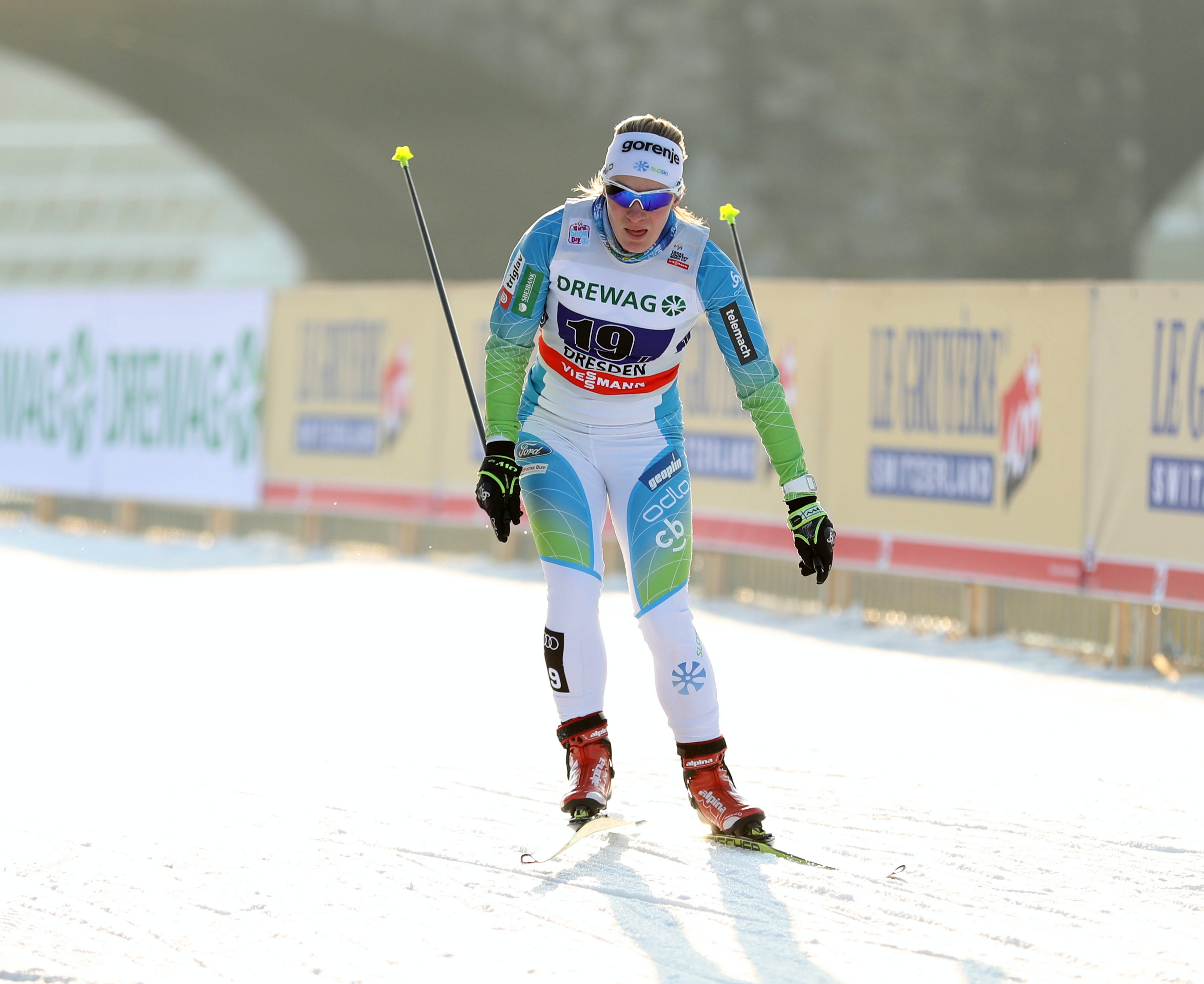 Womens Team Sprint (Semifinal) at the FIS Cross-Country World Cup Dresden 2018: Ida Sargent/Sophie Caldwell, Caitlin Patterson/Kikkan Randall, Hanna Kolb/Sandra Ringwald, Katharina Hennig/Elisabeth Schicho, Ewelina Marcisz/Sylwia Jaskowiec, Delphine Claudel/Aurore Jean, Katja Visnar/Nika Razinger, Mari Eide/Tiril Udnes Weng, Amalie Haakonsen Ous/Lotta Udnes Weng, Debora Roncari/Greta Laurent